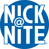 Nick at Nite logo used from 2002 to 2006